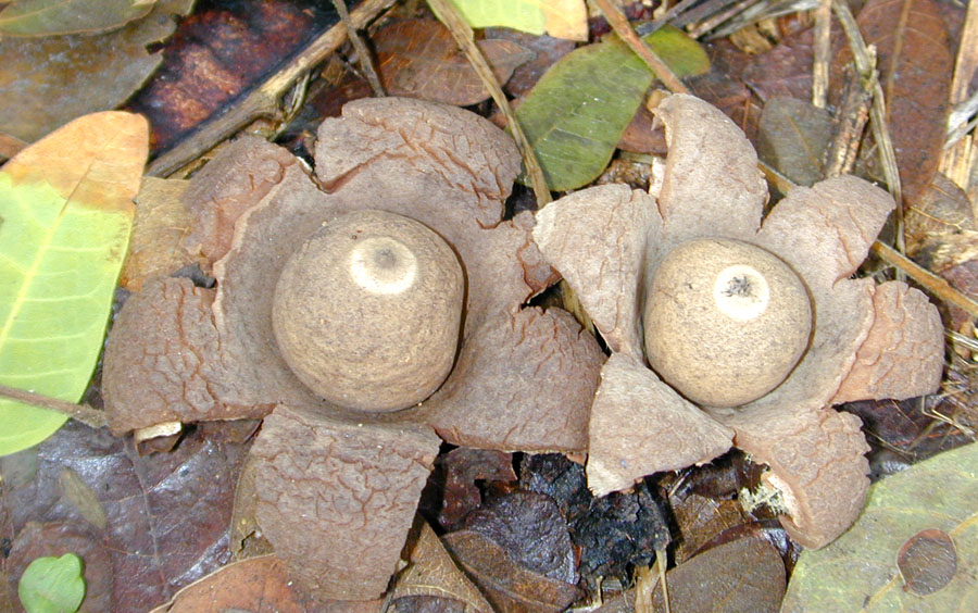 Geastrum sp. (earth star fungus) photographed on O'ahu, Hawai'i by Eric Guinther and provided to Wikibooks under the GNU Free Documentation License.